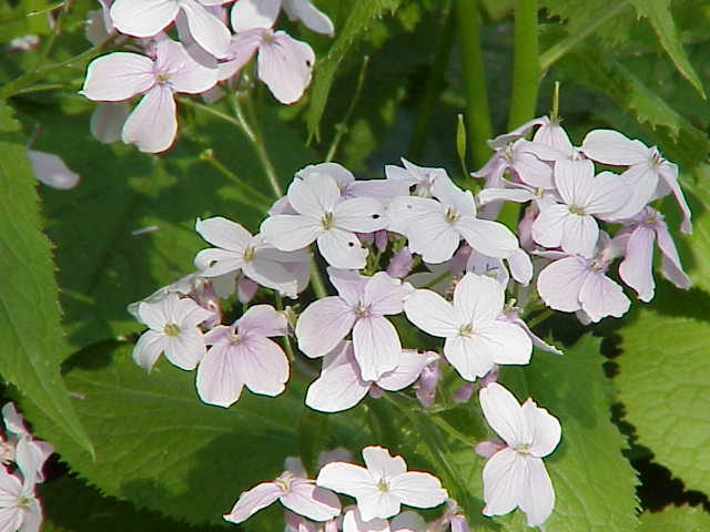 Species: Lunarai rediviva Family: Brassicaceae Image No. 1